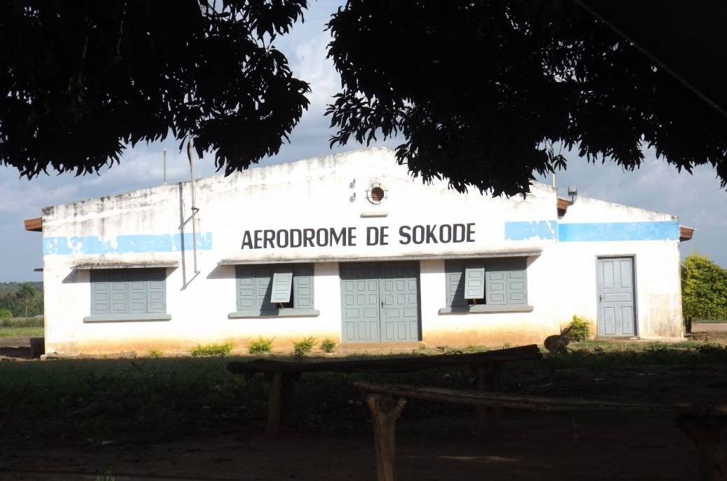 Sokodé airport